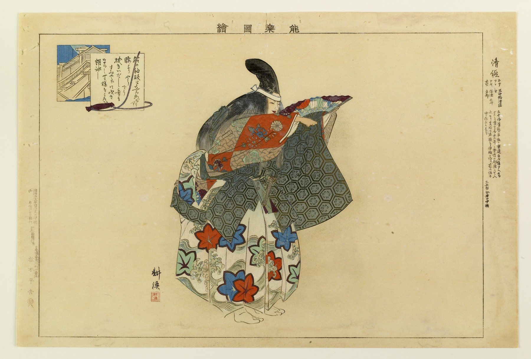 The 12th-century military leader Saito Sanemori was killed at the age of seventy-two in the battle of Shinowara. Before the battle, having a premonition that he would not return alive, he had requested permission to wear a general's red brocade robe. He had also dyed his gray hair black in order to appear more youthful. In this print, Sanemori's ghost is shown relating his story. In a small square, we see Sanemori having his beard dyed.